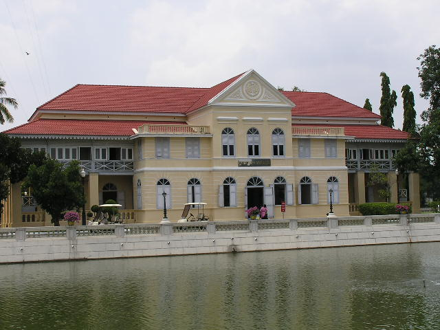 Sabakran Rajaprayoon Residential Hall within Bang Pa-In Palace, Ayutthaya, Thailand